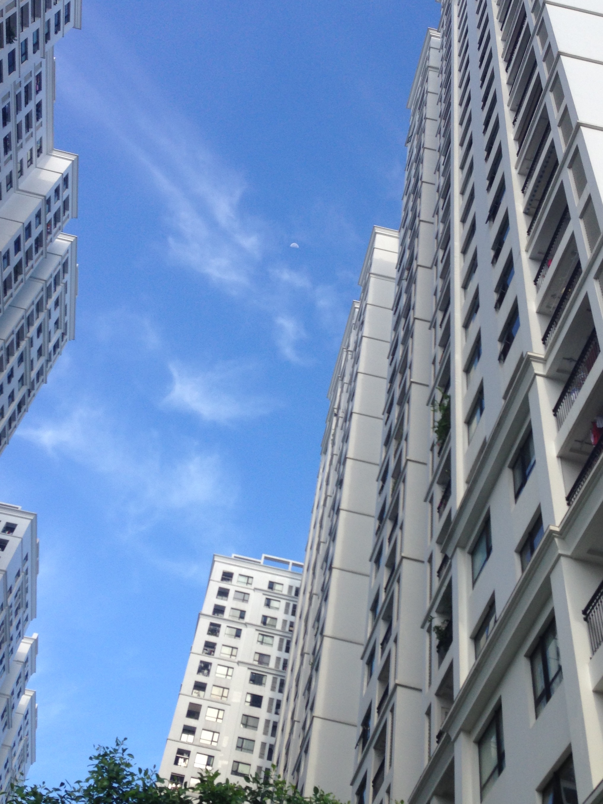 Moon at morning, viewed in Times City. Taken by my 4 years old daughter, Truong Hoang Khanh Ngoc. Khánh Ngọc tự tay chụp mặt trăng. Hai bố con đang đi dạo. Con gái cầm điện thoại bố nghịch bấm loạn xạ. Bố muốn đánh lạc hướng chú ý của con, biết con gái rất thích mặt trăng, bèn nói: "Khánh Ngọc ơi, ông trăng kìa con!" Con gái hỏi: "Ông trăng ở đâu hở bố?" Bố chỉ lên khoảng trời xanh giữa 2 nóc nhà, bảo "Kia kìa con!" Con gái chĩa ngay điện thoại lên trời và choạch.., Hà Nội, mùa thu 2015. 7:30 5/9/2015